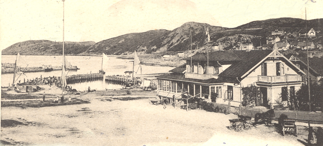 Hotel Kullaberg at Mölle harbour 1903